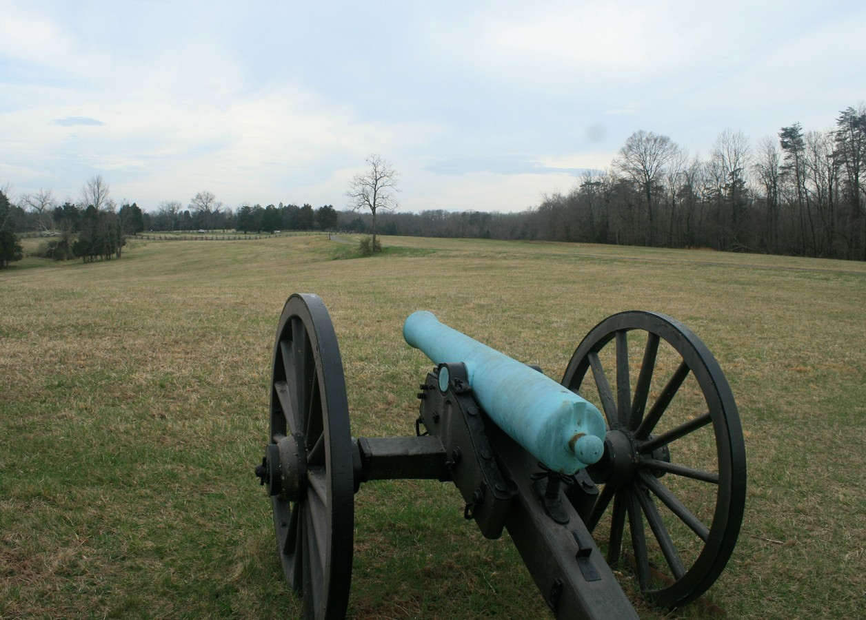 Second Manassas Battlefield, 5th Main battery on Chinn Ridge, aiming Chinn House.